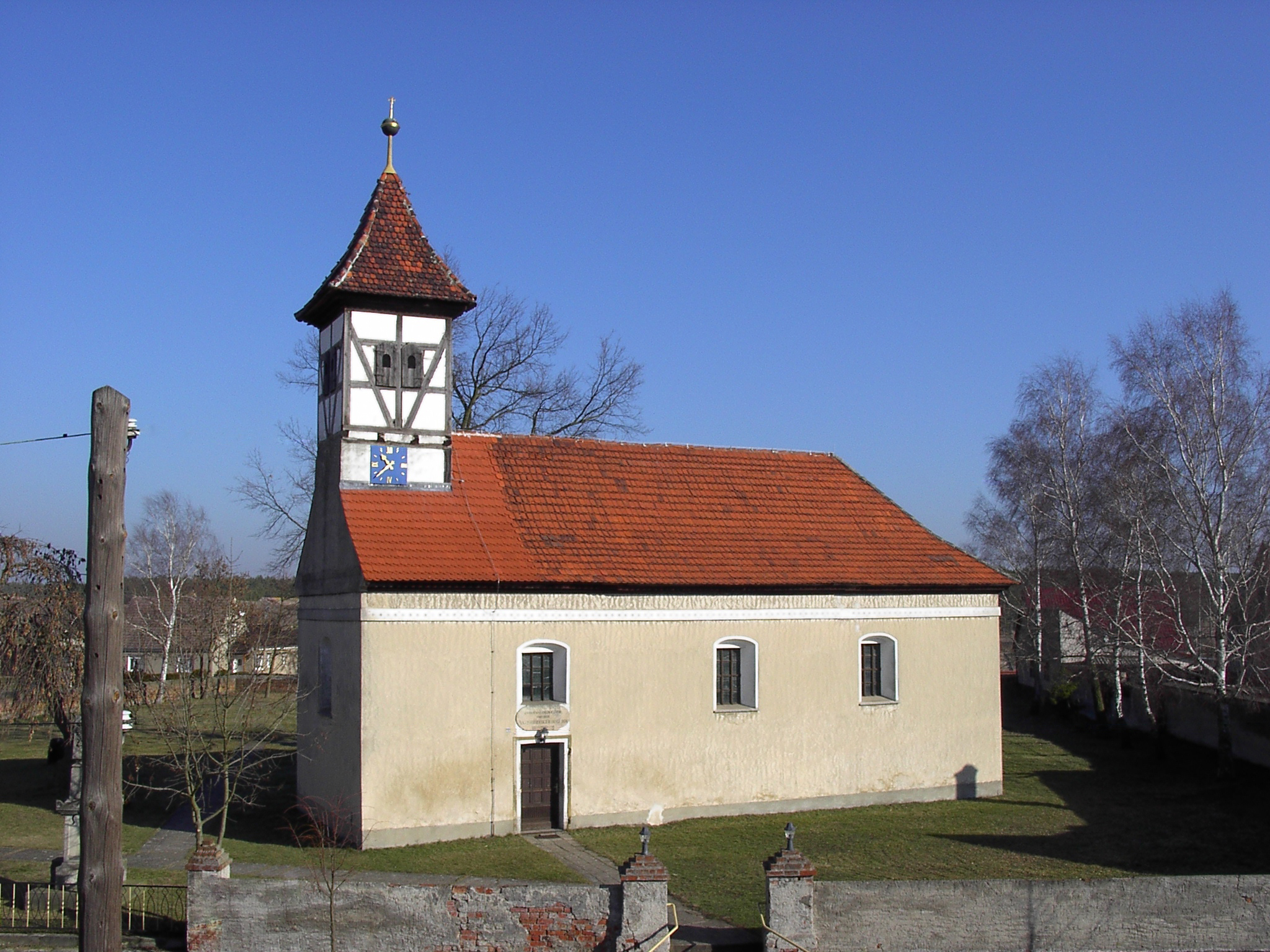 Church in Groß Briesen. Groß Briesen is a part of the town Belzig in Brandenburg, Germany.